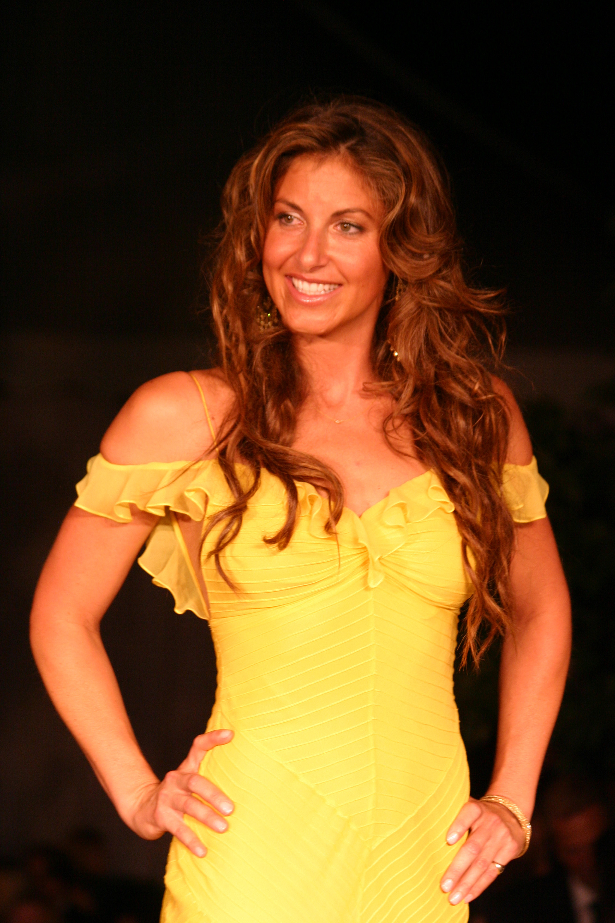 Dylan Lauren attending her father Ralph Lauren's 40th Anniversary party held in the Conservancy Garden in Central Park on September 8, 2007.